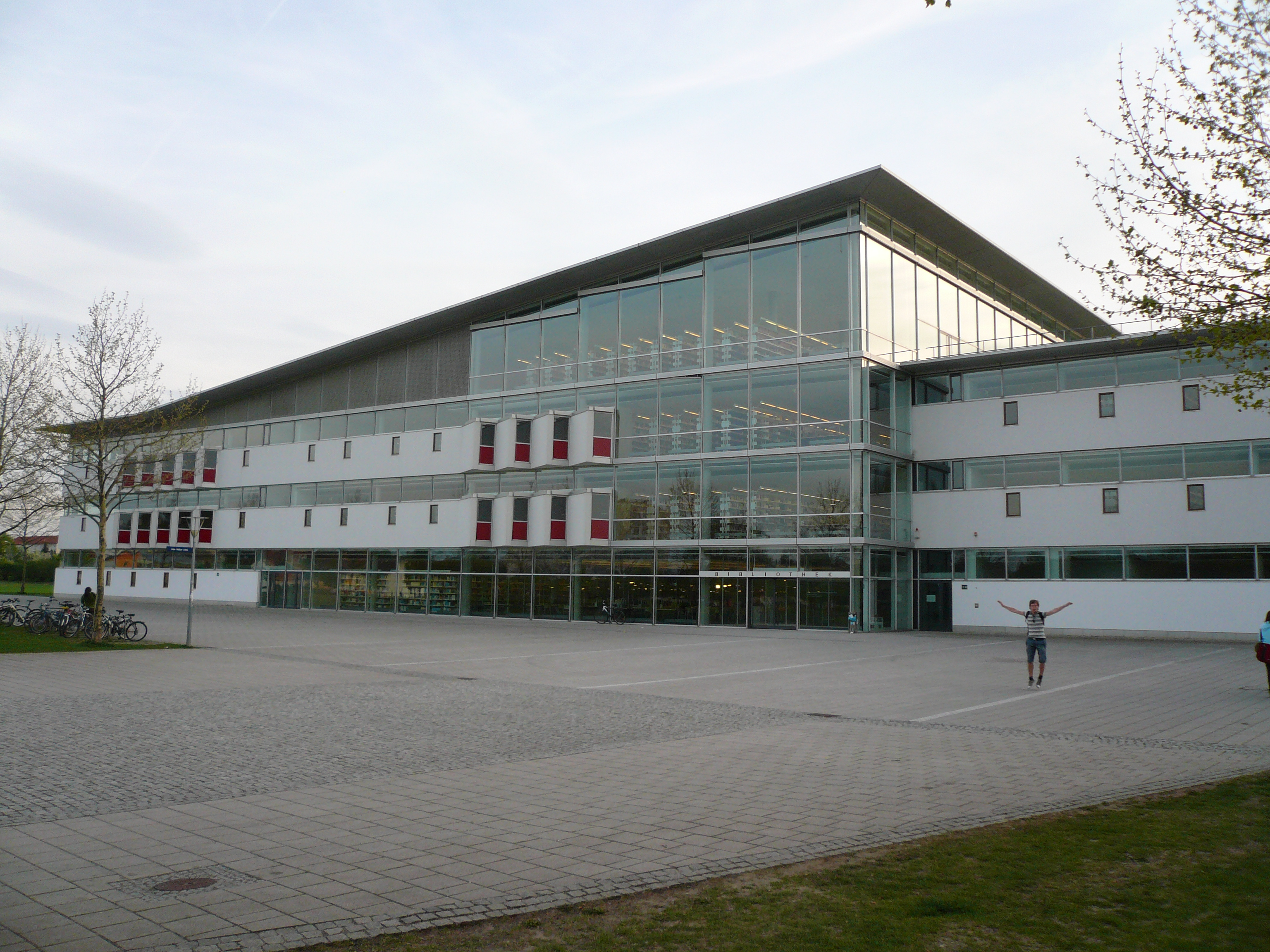 The building of the university and science library Erfurt/Gotha at the campus of the University Erfurt, Germany